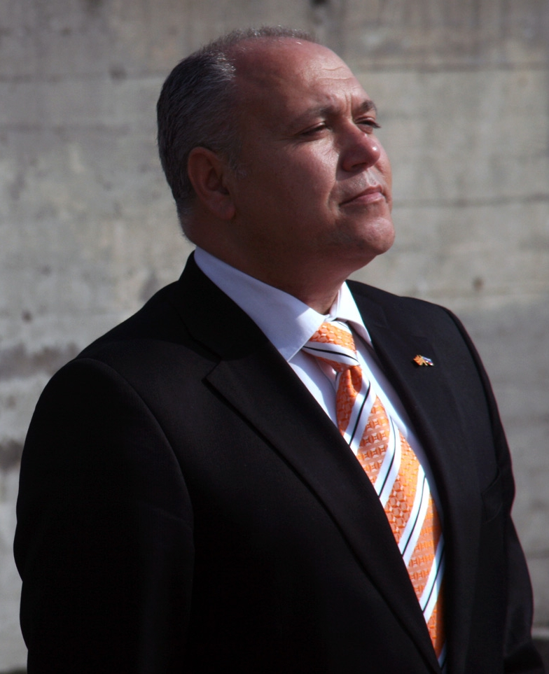 Zoran Konjanovski